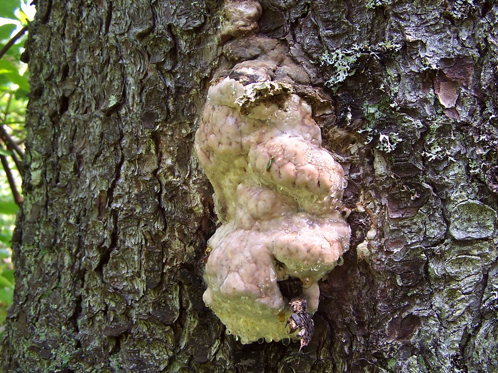 Resins Picea